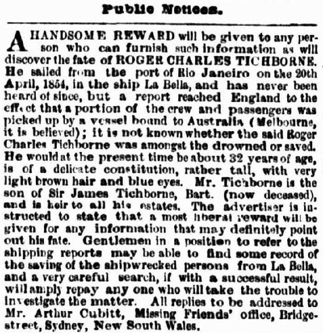 Advertisement placed on 2 August 1865 in the Argus, Melbourne seeking information as to the fate of Roger Charles Tichborne.